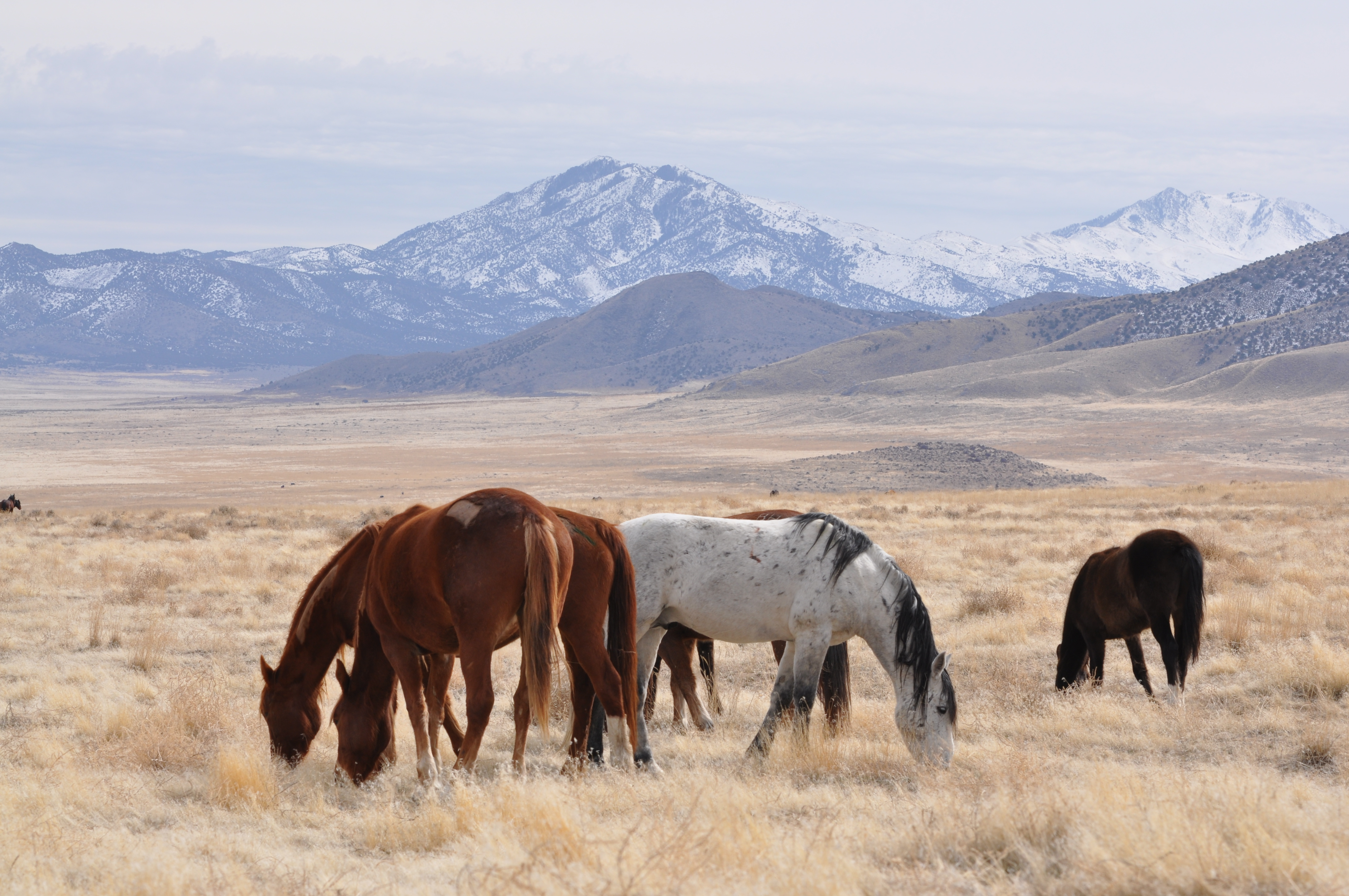 The Onaqui HMA with horses that were released on 02/20/12.